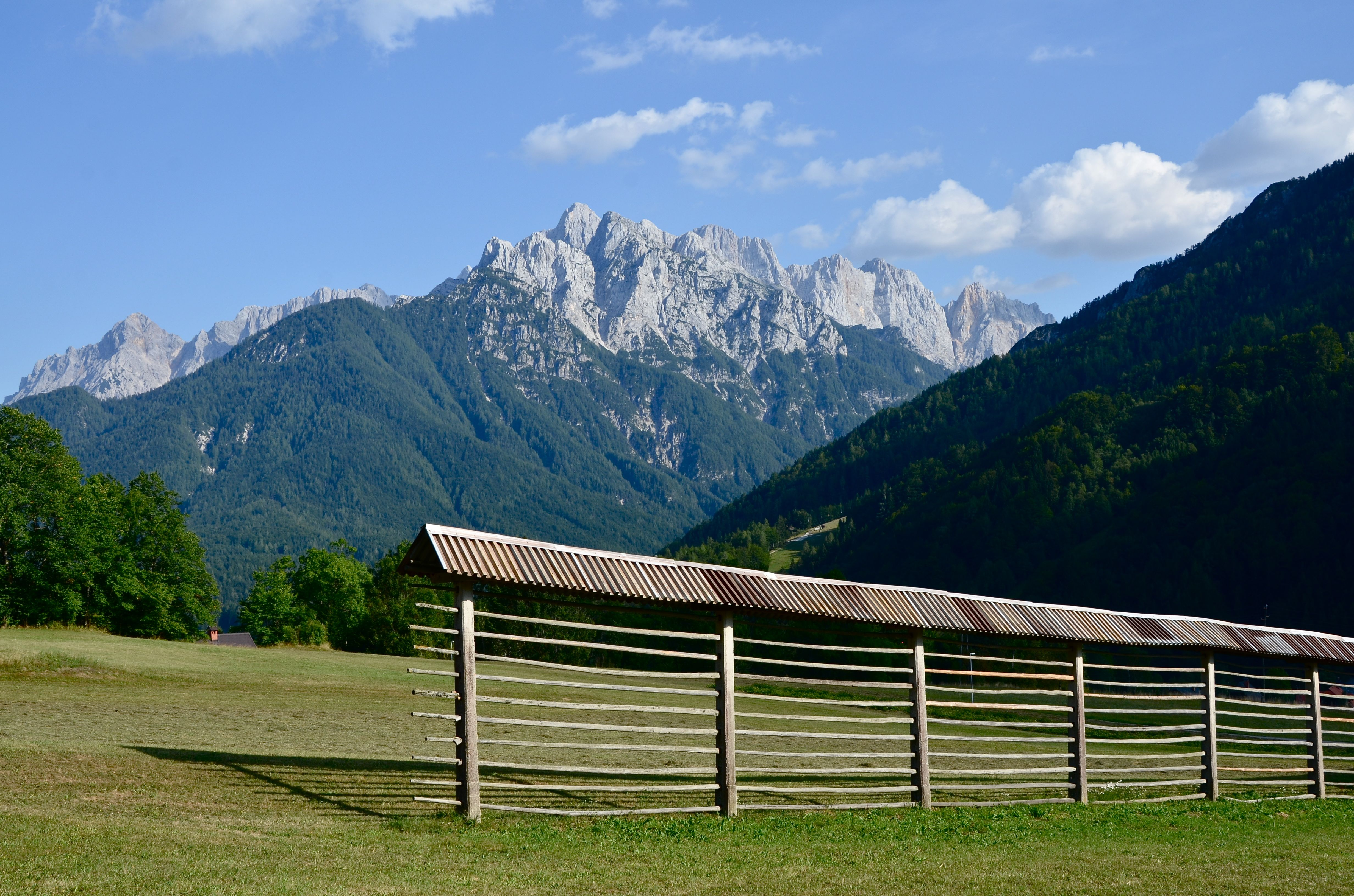 Hay drying rack, in the background the Škrlatica (right hand) and the Špik (left hand) in the Martuljek mountains (group), Julian Alps, municipality Kranjska Gora, Slovenia / EU